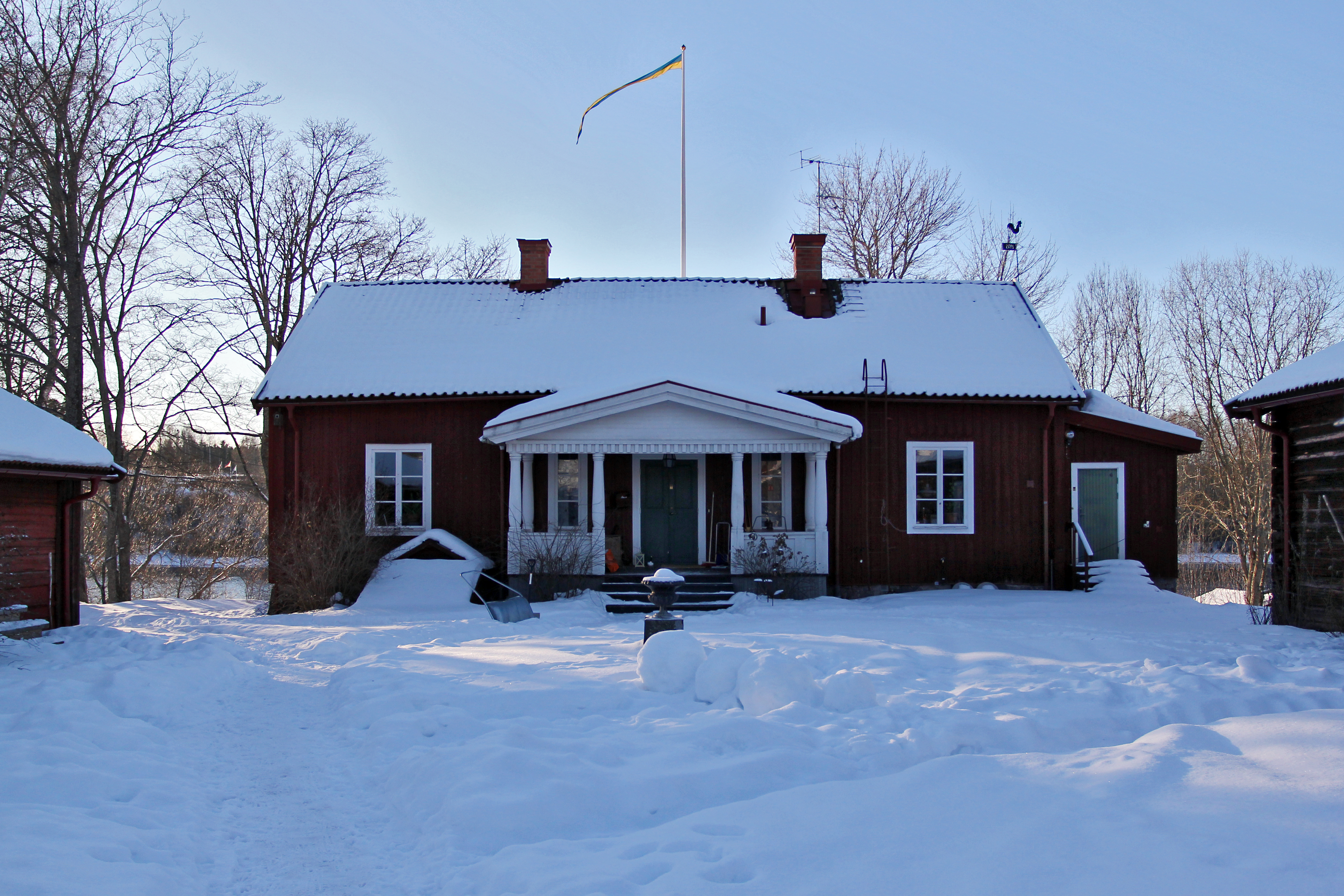 Kaptensgården, Tibble, Leksand Municipality, Sweden